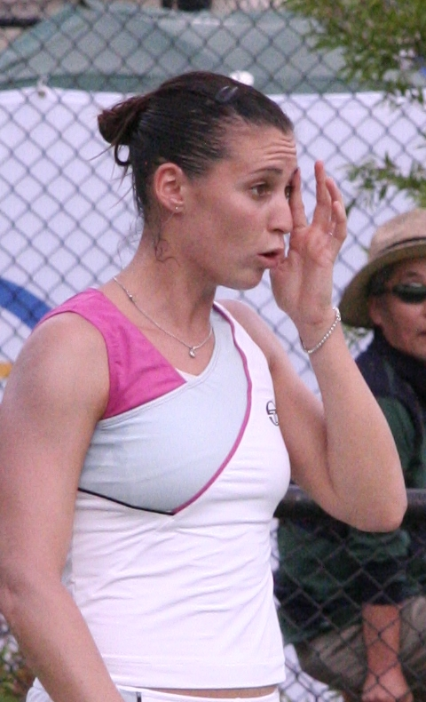 Flavia Pennetta at the 2007 Australian Open, during her first-round womens double match, partnering Elena Dementieva (they were seeded 14th).